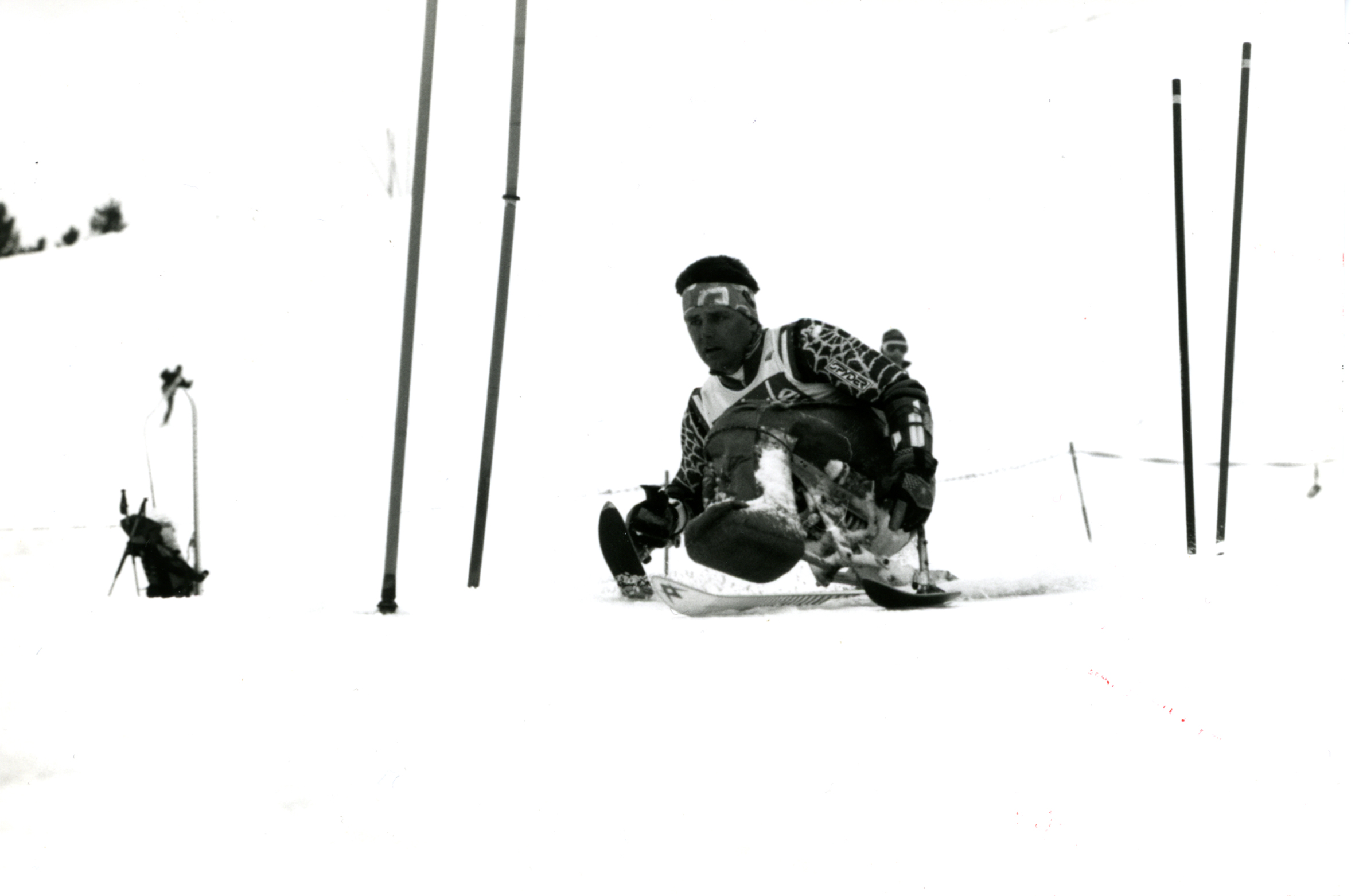 Australian Paralympian Michael Norton at the 1992 Winter Games in Albertville